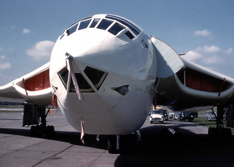 Handley-Page Victor nose (probably B.2).